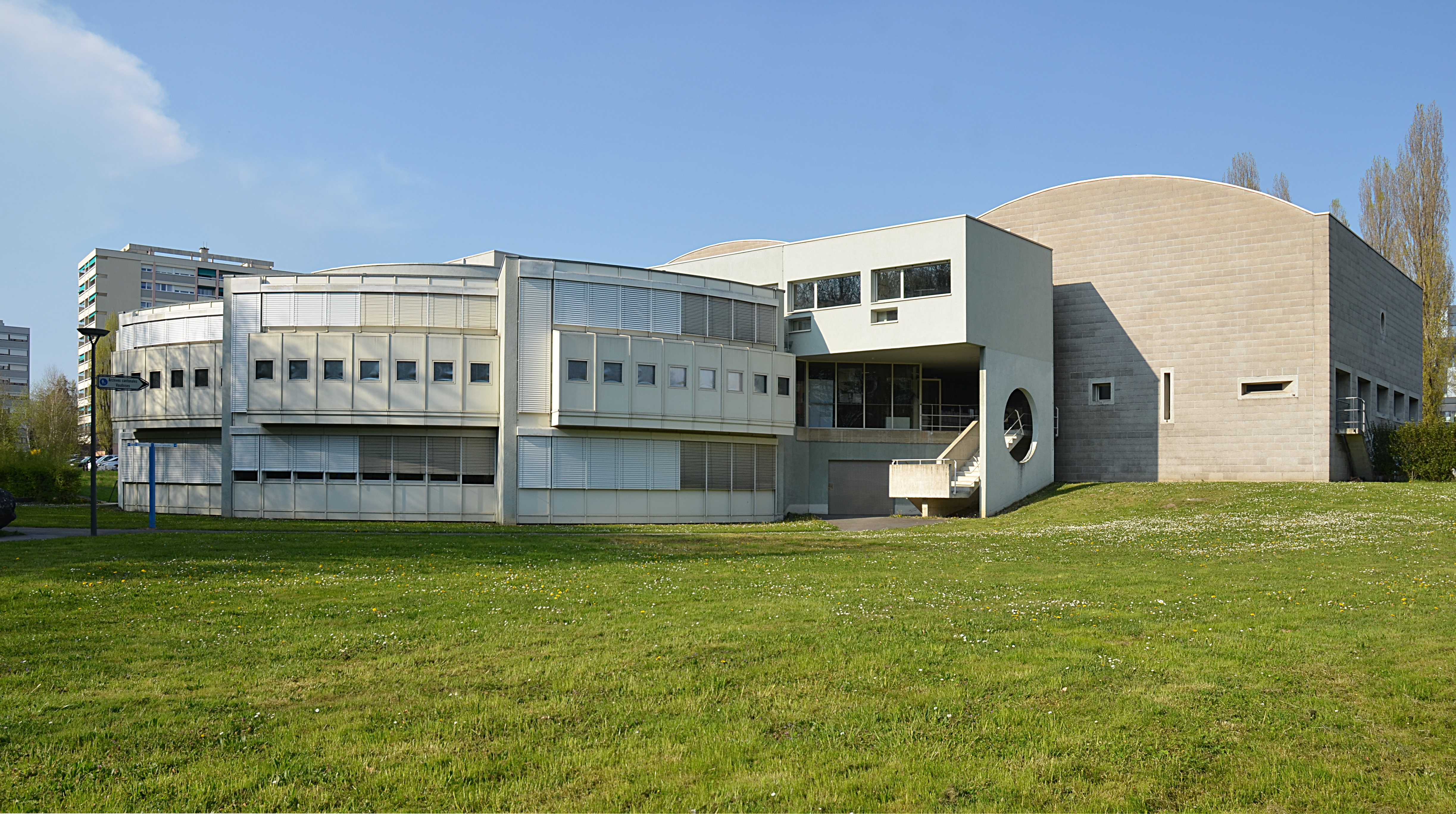 Building of the Archives of the State of Vaud, Lausanne, Switzerland.